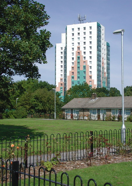 Sutton Ings, Hull. Looking north-northwest towards the Bayswater Court flats from the terraced bungalows on Garrick Close.